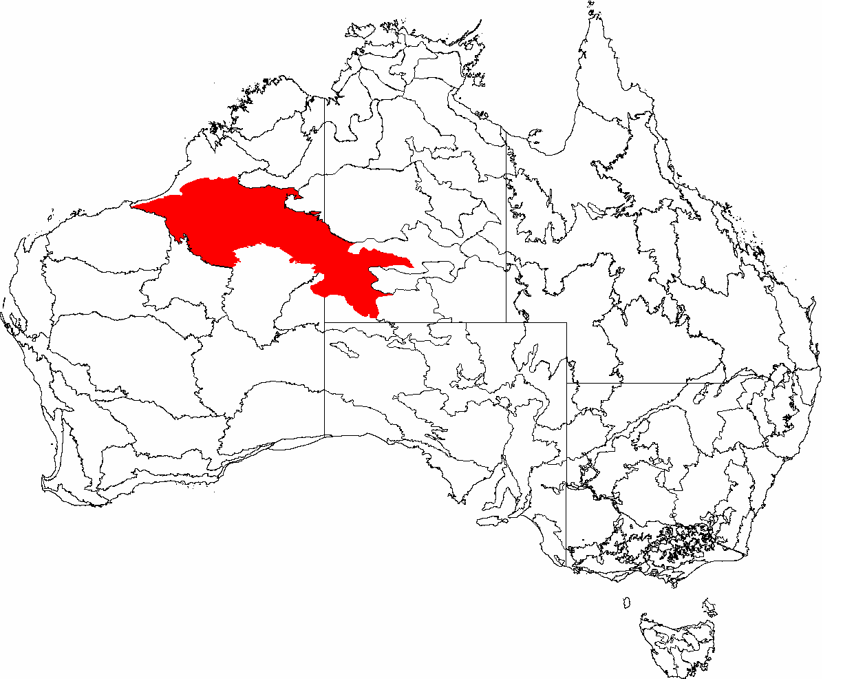 This is a map of the Interim Biogeographic Regionalisation of Australia (IBRA), with state boundaries overlaid. The Great Sandy Desert region is shown in red.